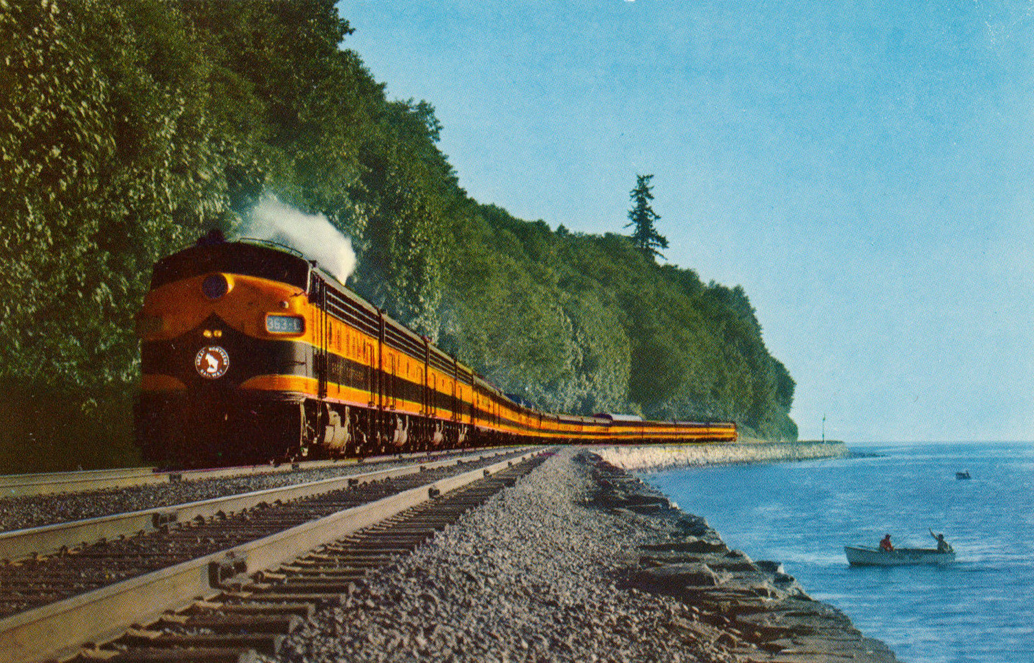 Postcard photo of the Great Northern Railway's "Empire Builder" streamliner between Everett and Seattle, Washington.